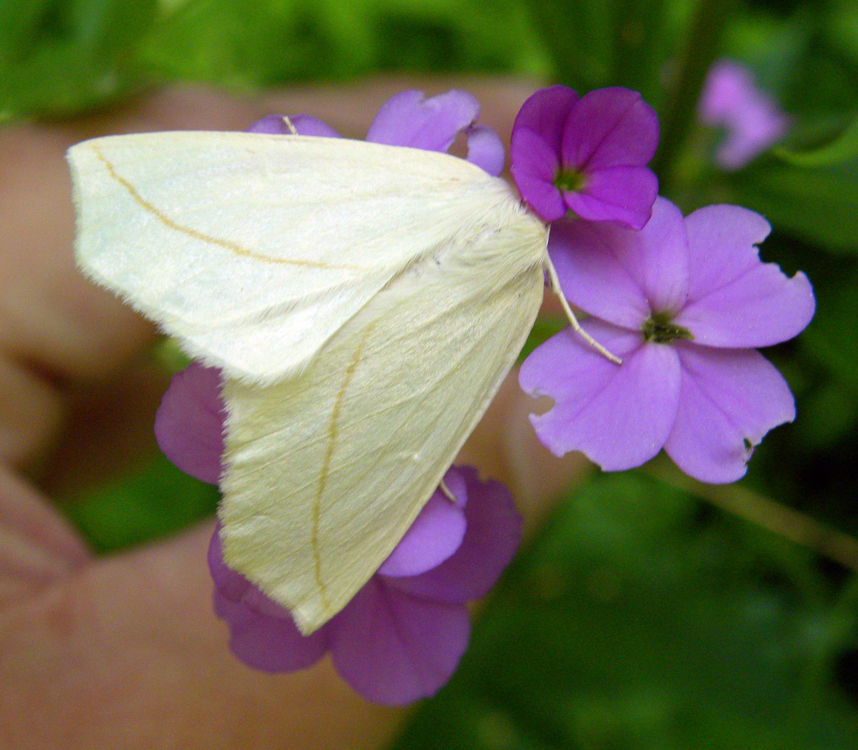 Tetracis cachexiata, Slant-Line Moth near Wilmot, Ohio.